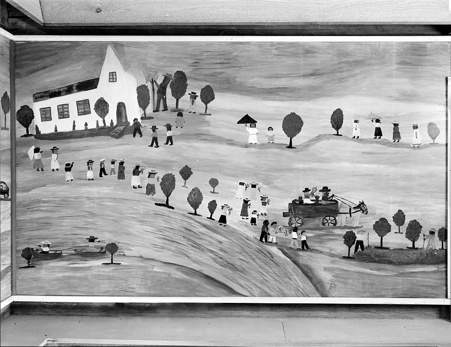 Funeral & Wake (1955). Section of mural painted by Clementine Hunter inside the African House at Melrose Plantation. Historic American Buildings Survey photo: Melrose Plantation, African House, State Highway 119, Melrose, Natchitoches Parish, Louisiana. USA